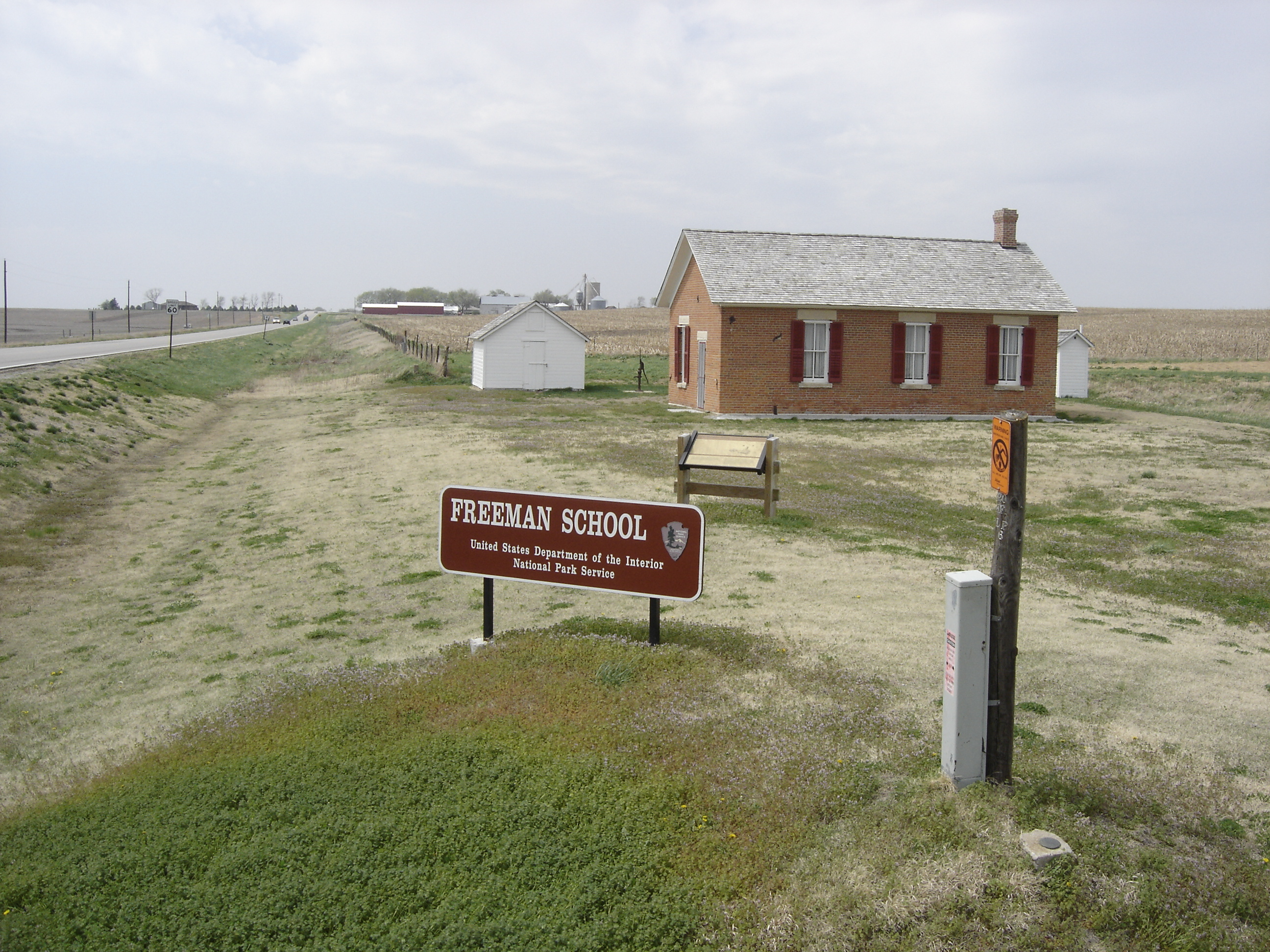 The Freeman School, part of the Homestead National Monument of America, built in en:1872.